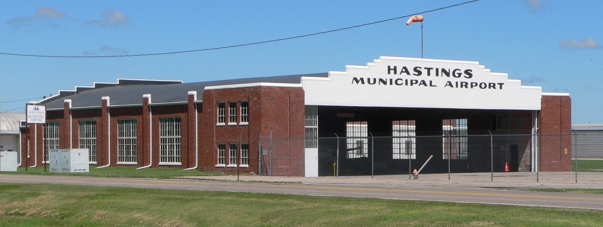 Hastings Municipal Airport Hangar-Building No. 1 at 3100 West 12th Street in Hastings, Nebraska; seen from the southeast. The hangar was constructed in 1930. It is listed in the National Register of Historic Places.